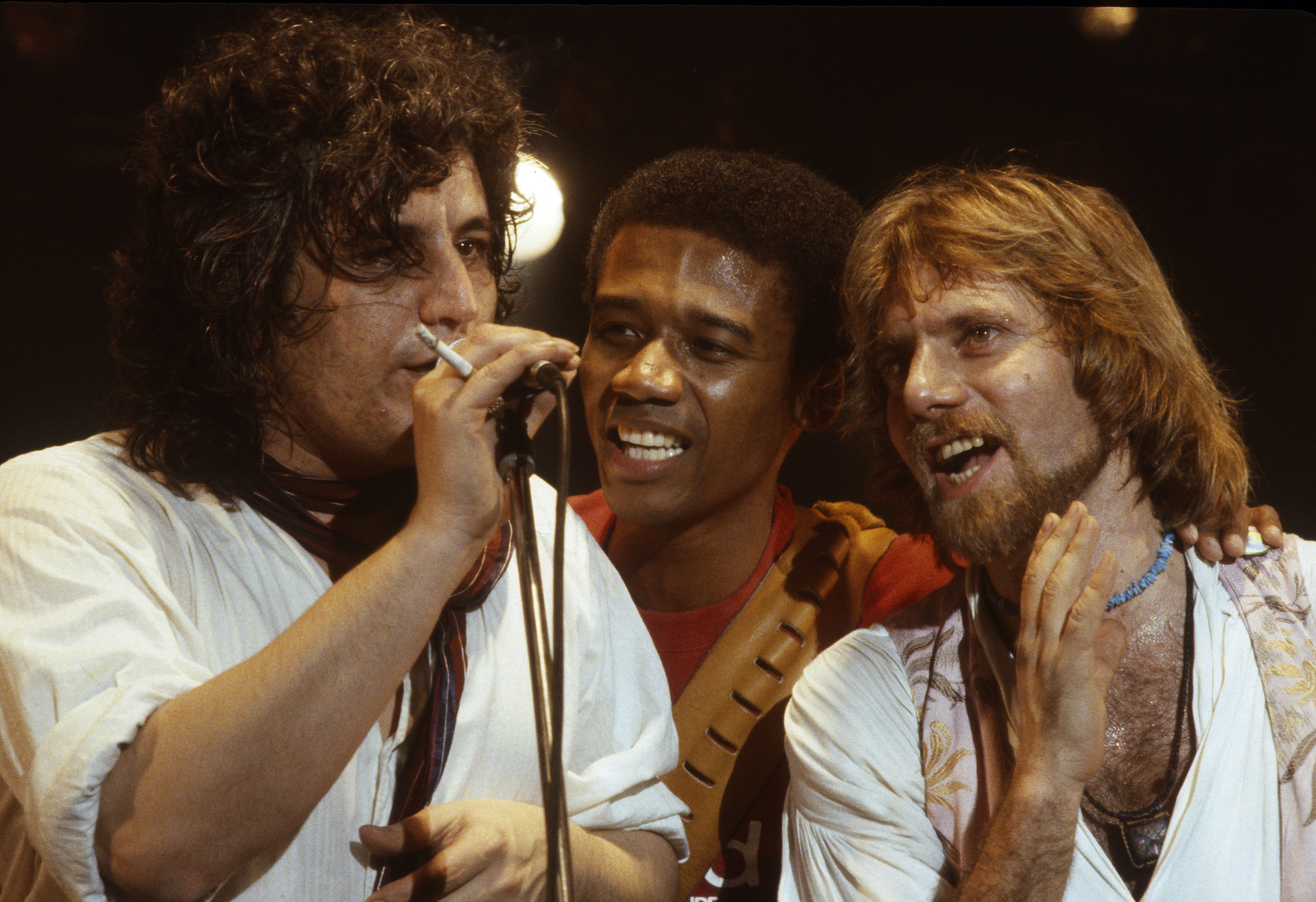 pino daniele, al johnson and toni esposito